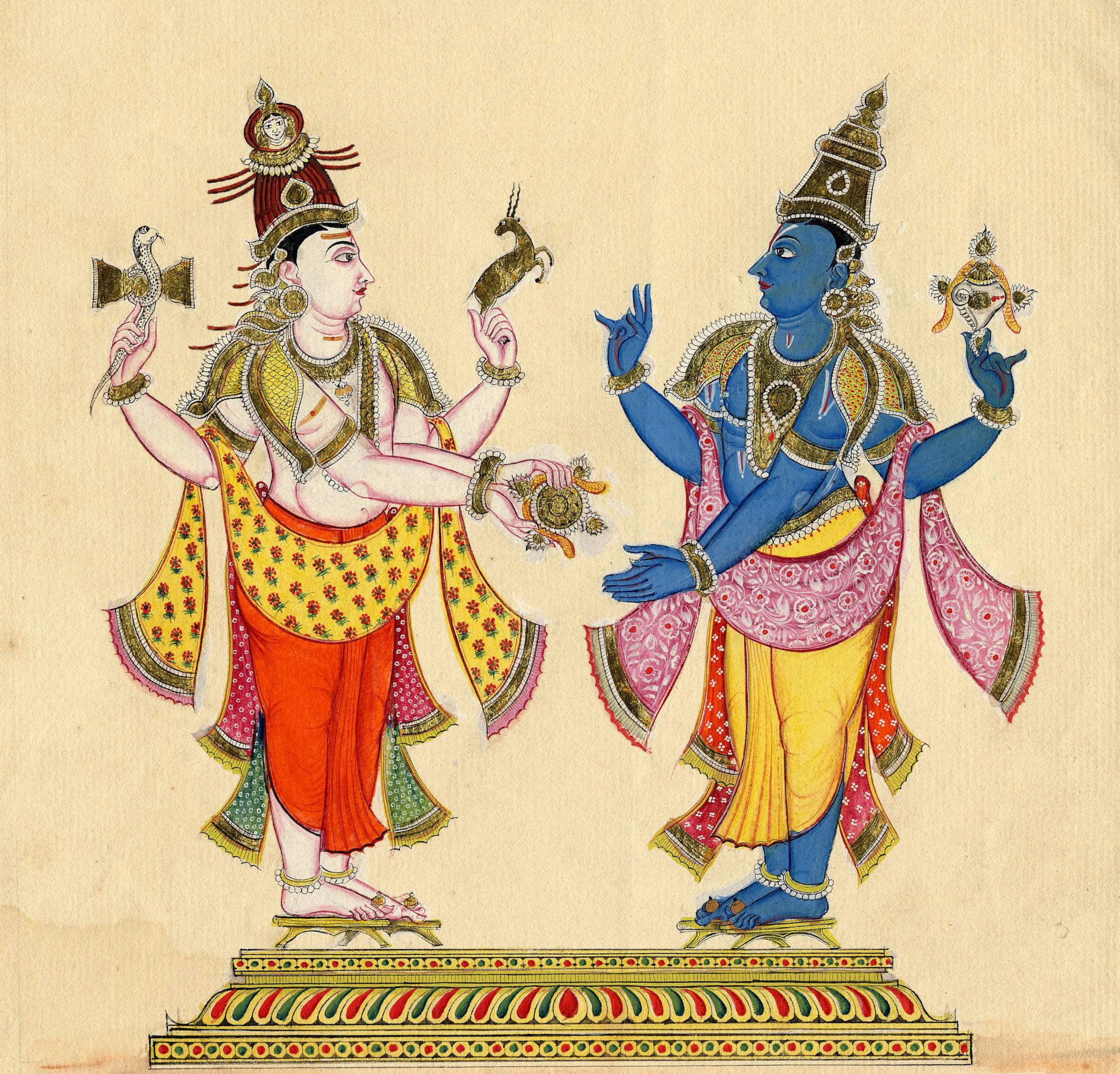 "Painting of Siva presenting the cakra to Viṣṇu. The two gods stand facing each other on a platform. They are both four-armed with Siva holding damaru in his upper right and mrga in his upper left. With his two lower hands he profers the cakra to Viṣṇu. Viṣṇu holds his two lower hands towards Siva to receive the cakra and his upper right hand is waiting to take the weapon; his upper left holds the sankha. Siva wears the jata in which Ganga is seen; Viṣṇu is crowned. On laid European paper watermarked with 'W. Thomas'."